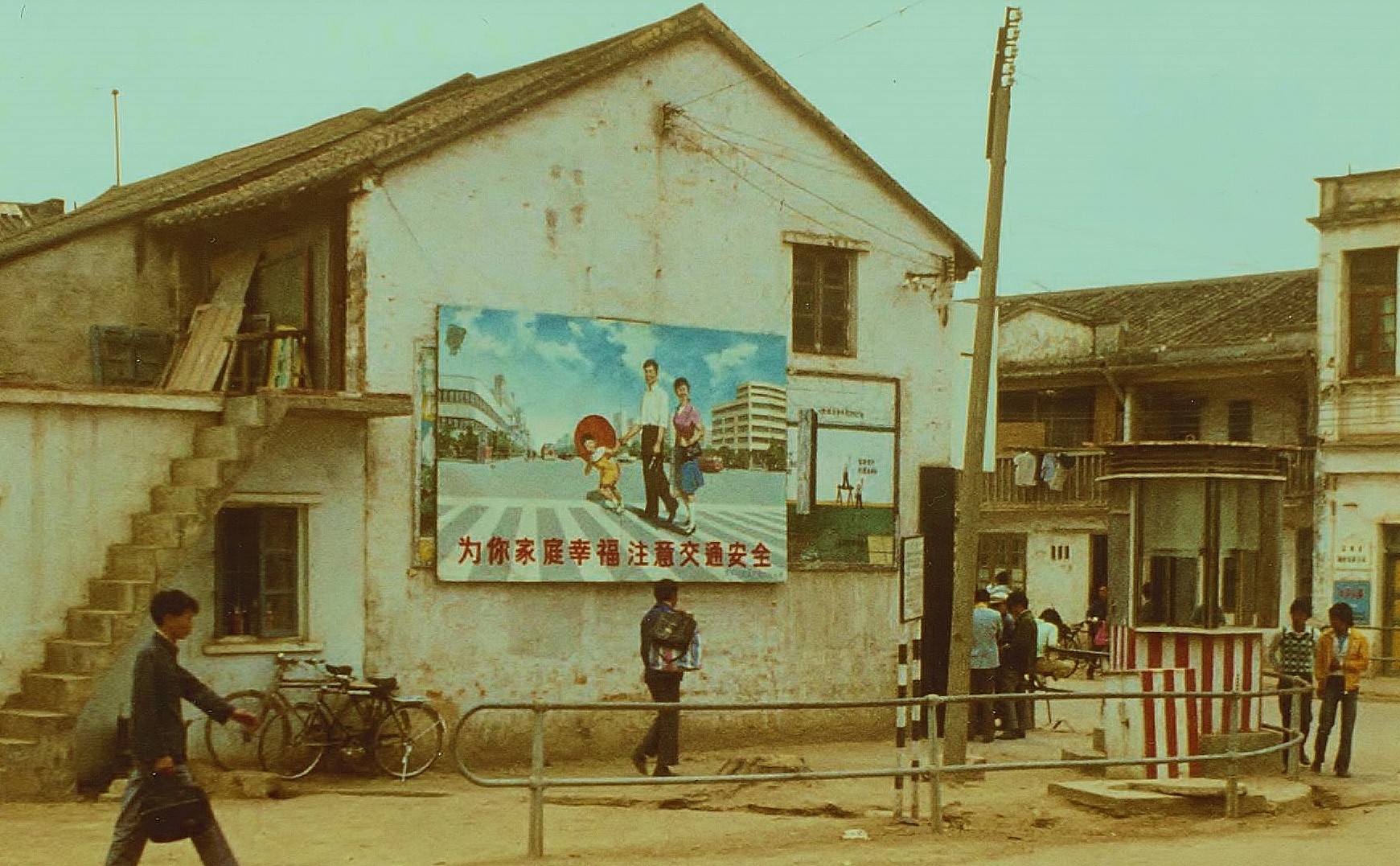 propaganda poster at beginning of Chinese econmic reforms: family with one child in modern environment